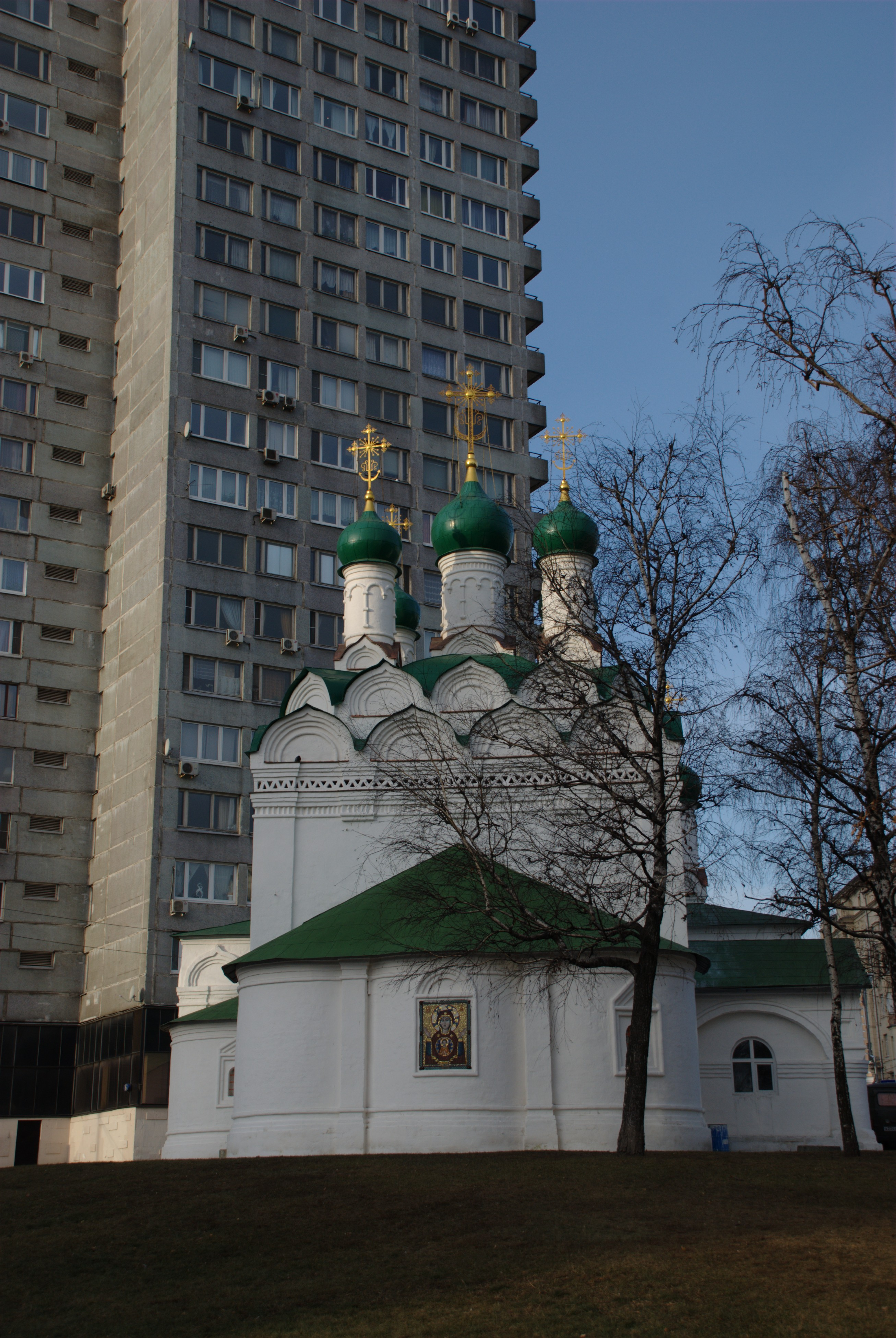 Church of Simeon Stylites. Build in 1676. Povarskaya str, 5